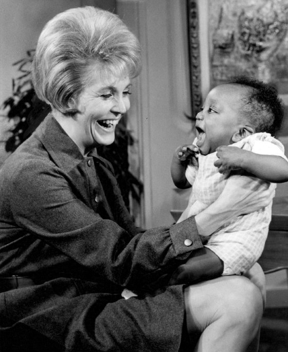 Publicity photo of Lee Phillip Bell, who was a Chicago television show hostess.